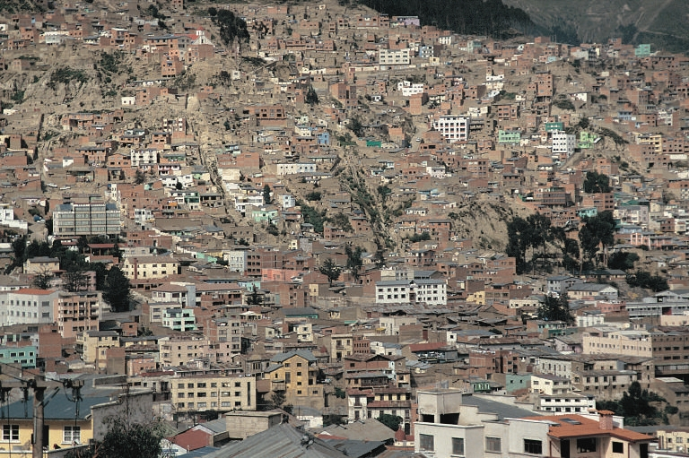 La Paz, the capital of Bolivia, is a city of over one million people. Most of the people are rural-urban migrants who live in sprawling housing areas like this on the escarpment overlooking the central part of the city.